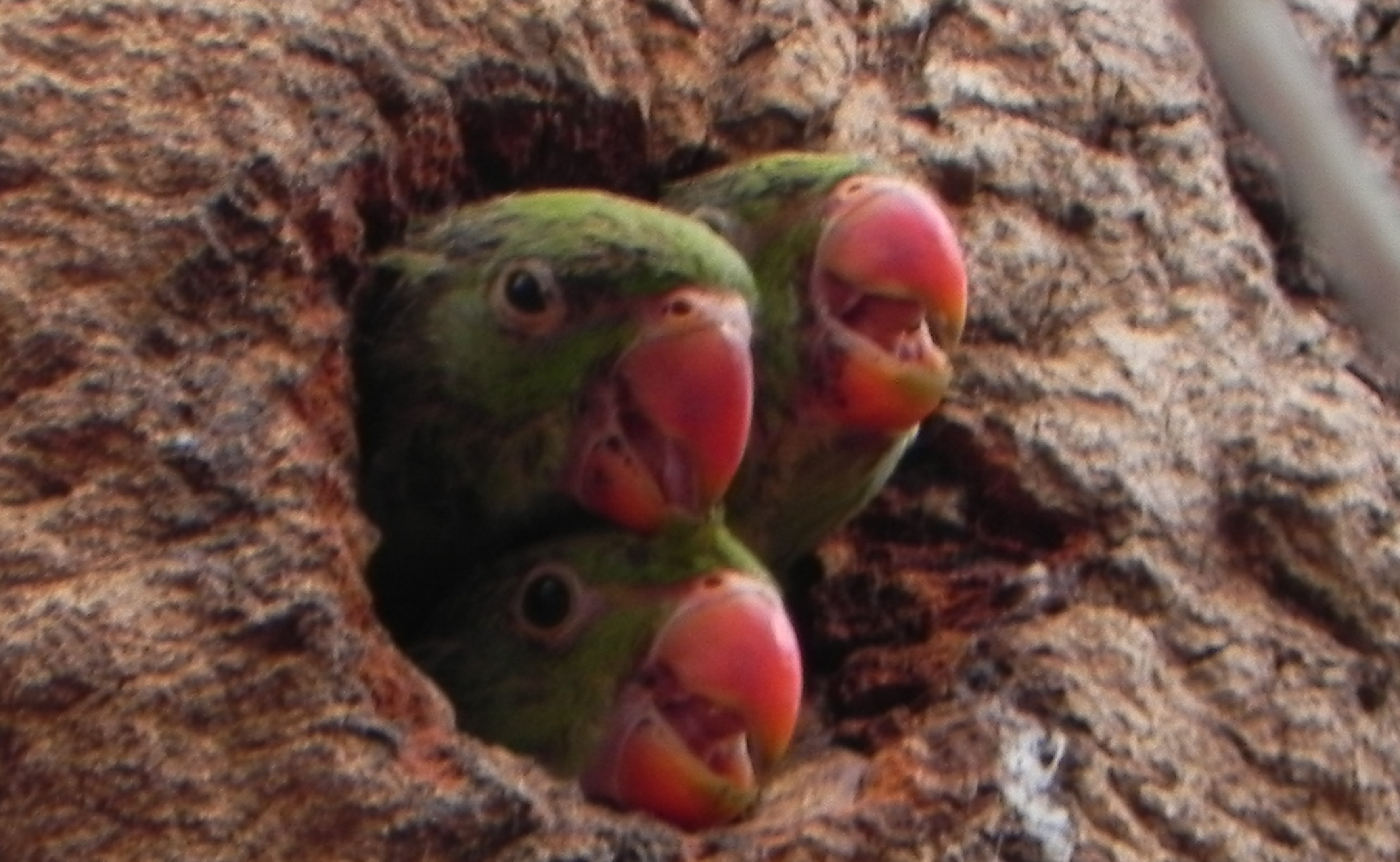 Babies in tree trunk.